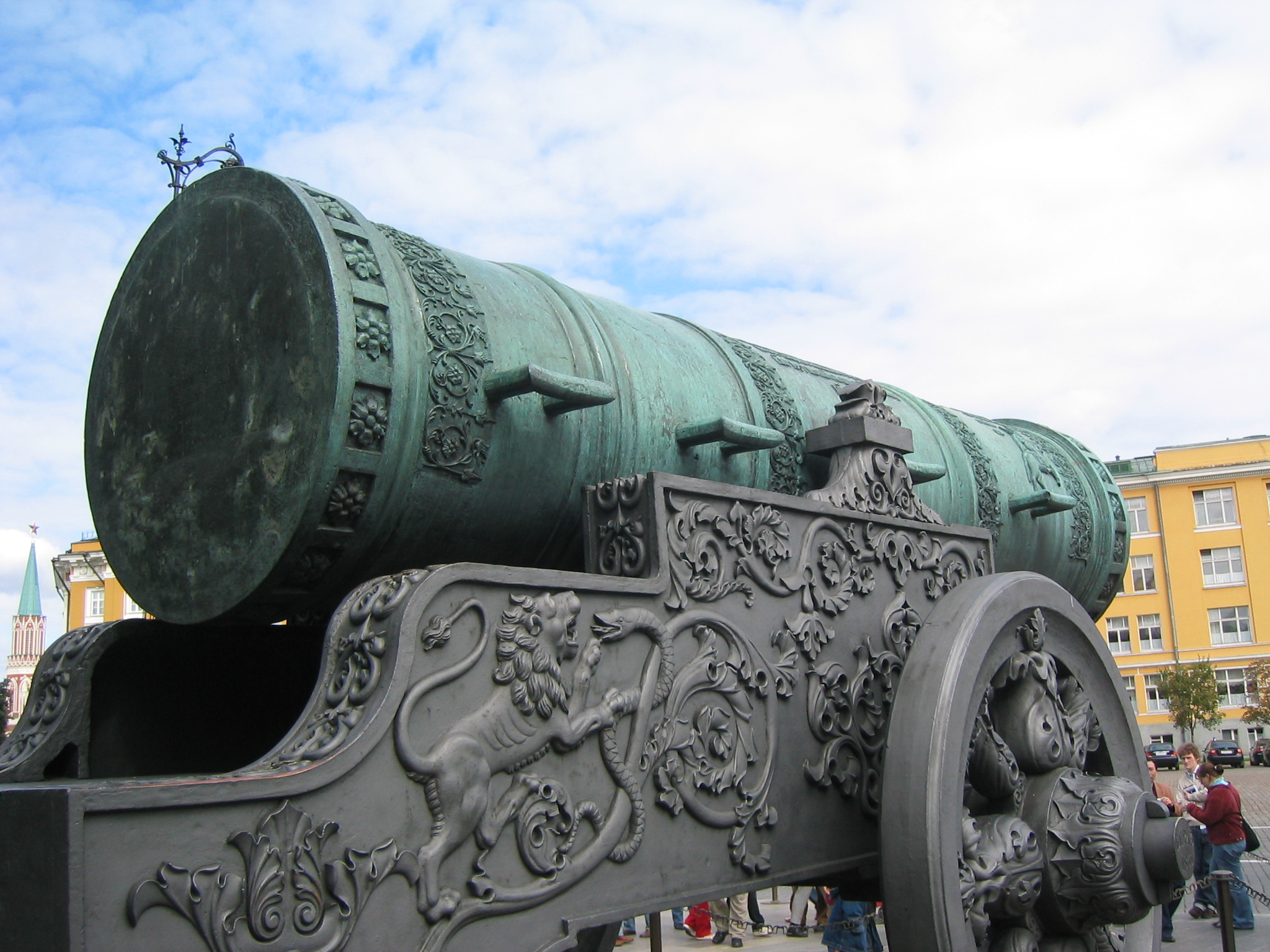 A rear 3/4 view of the Tsar Cannon (Царь-Пушка) in the Moscow Kremlin.